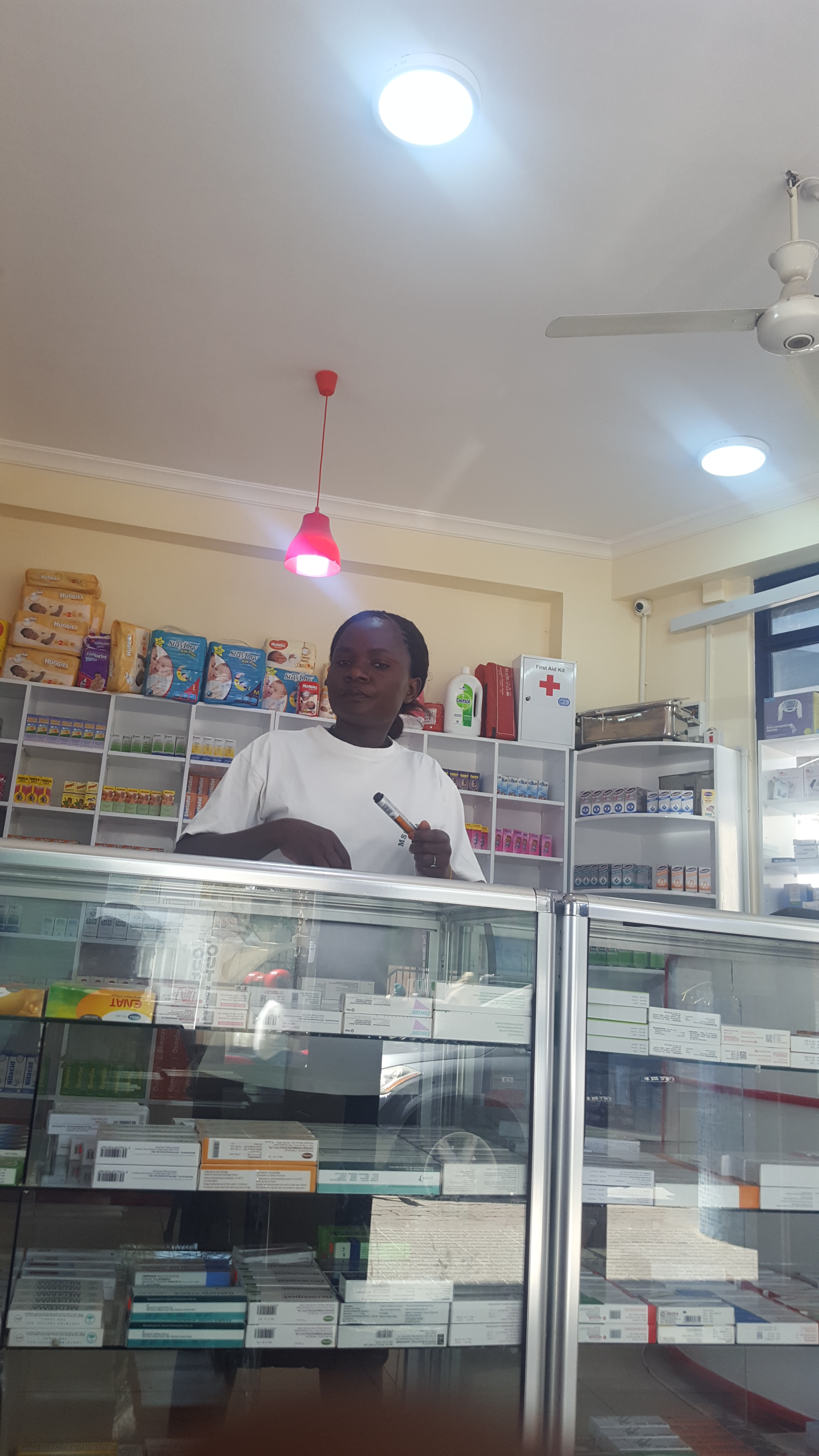 Pharmacist providing medical services to their clients This is an image of "African people at work" from Tanzania